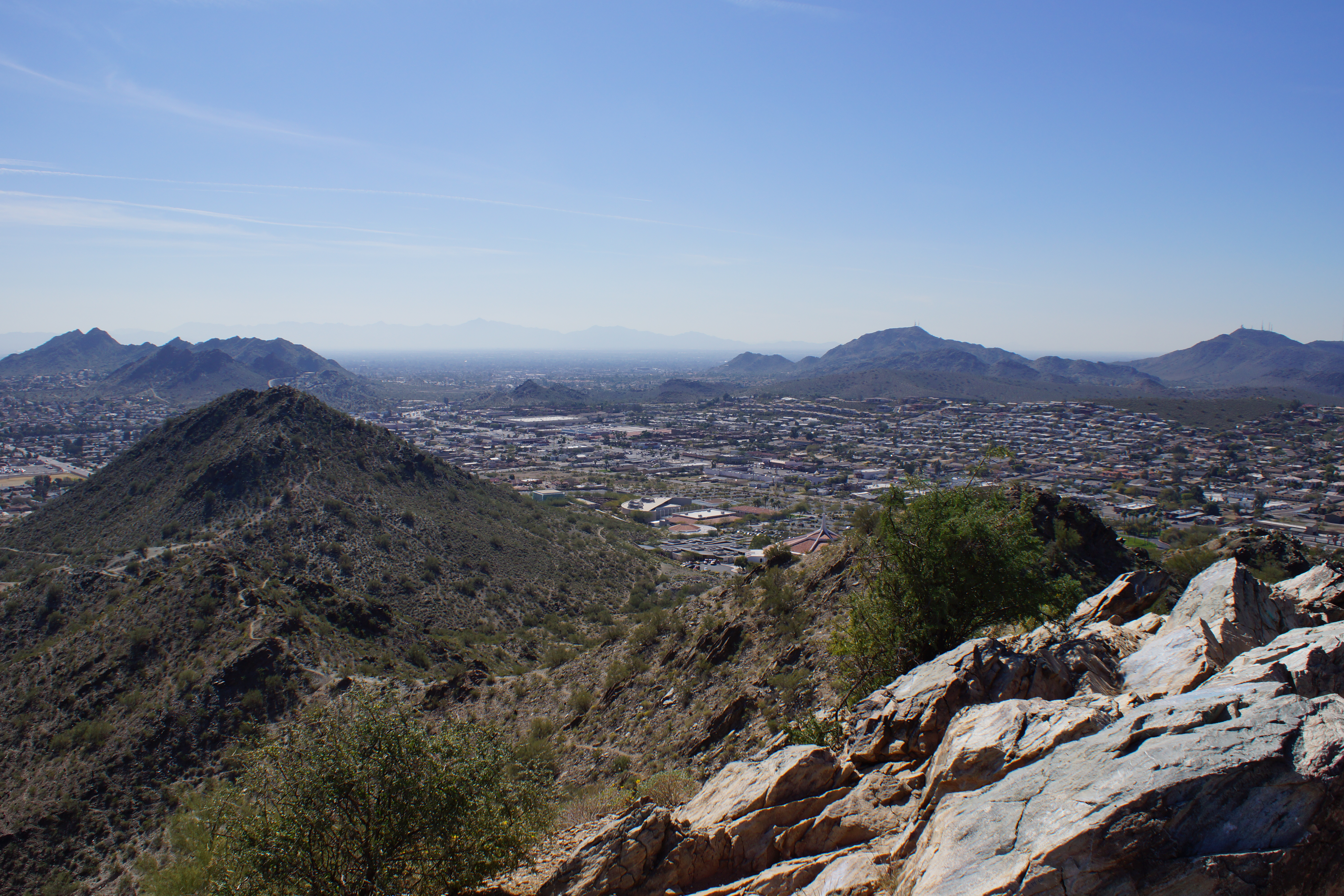 2014, View SW from Shadow Mountain